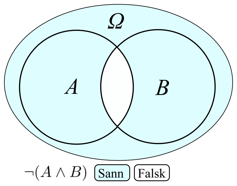 NAND logic